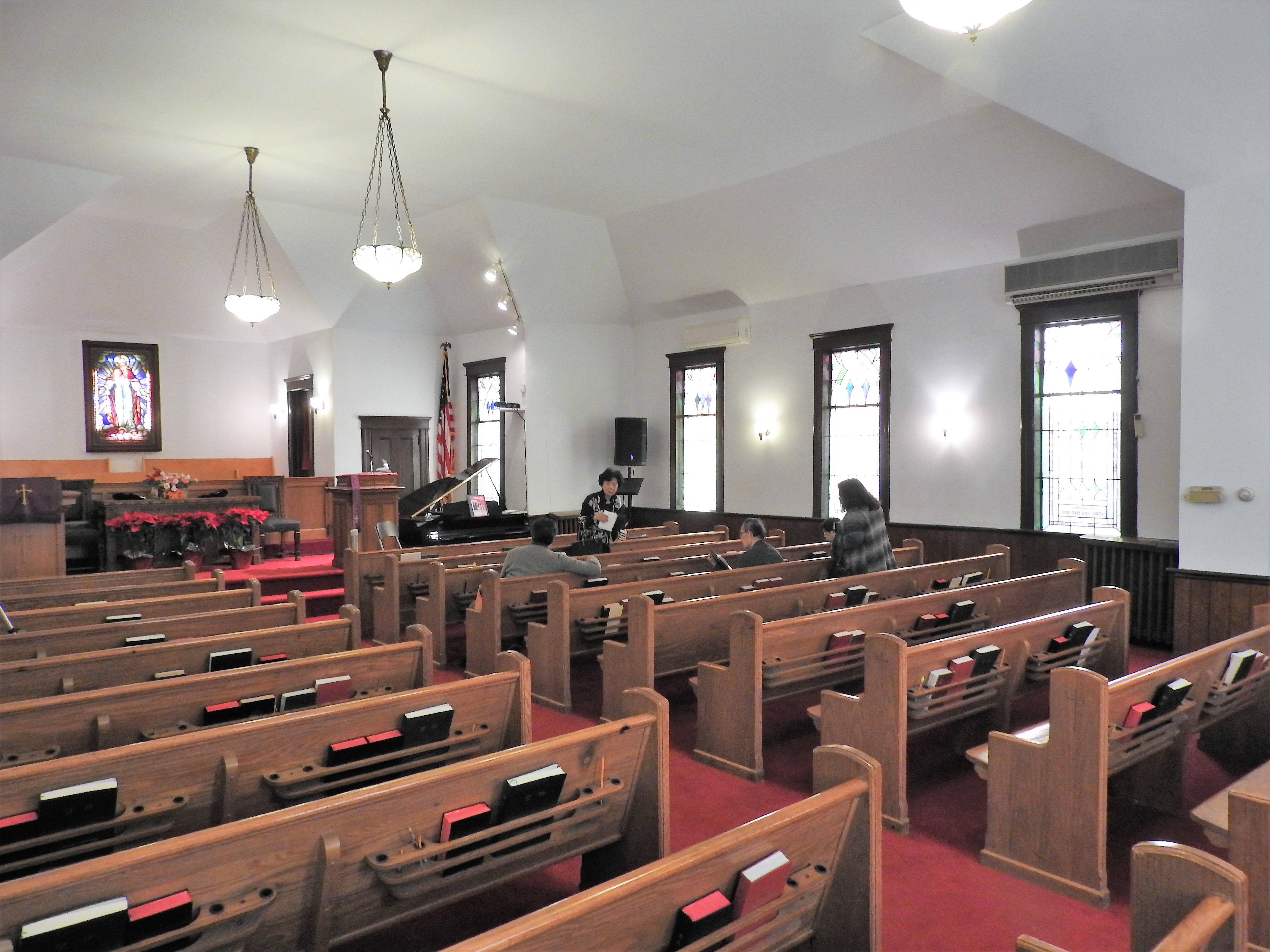 Looking northwest in church